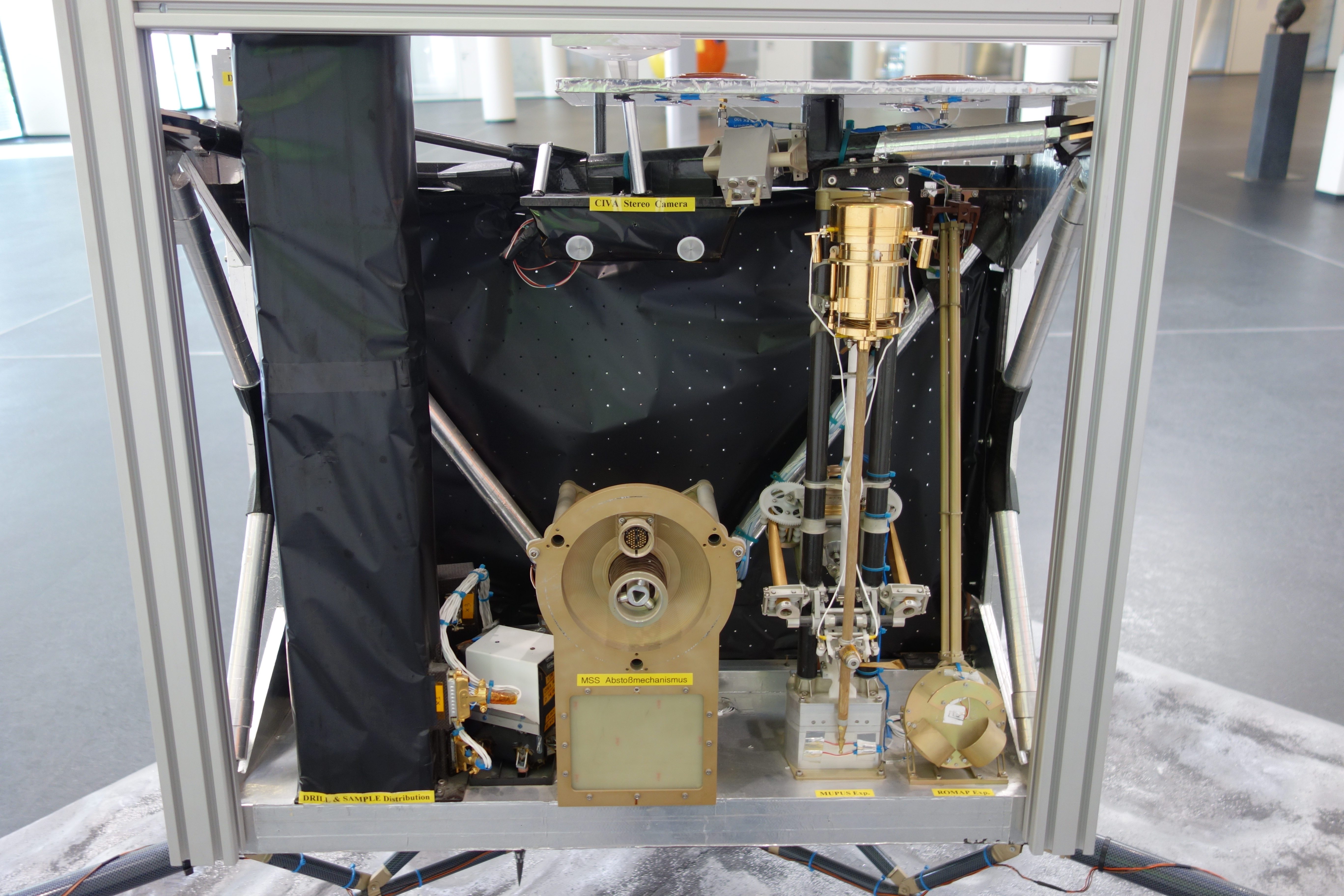 Deploy mechanism of the Philae lander composed of the three holes for the thread bar deploy mechanism and the spring as emergency mechanism.